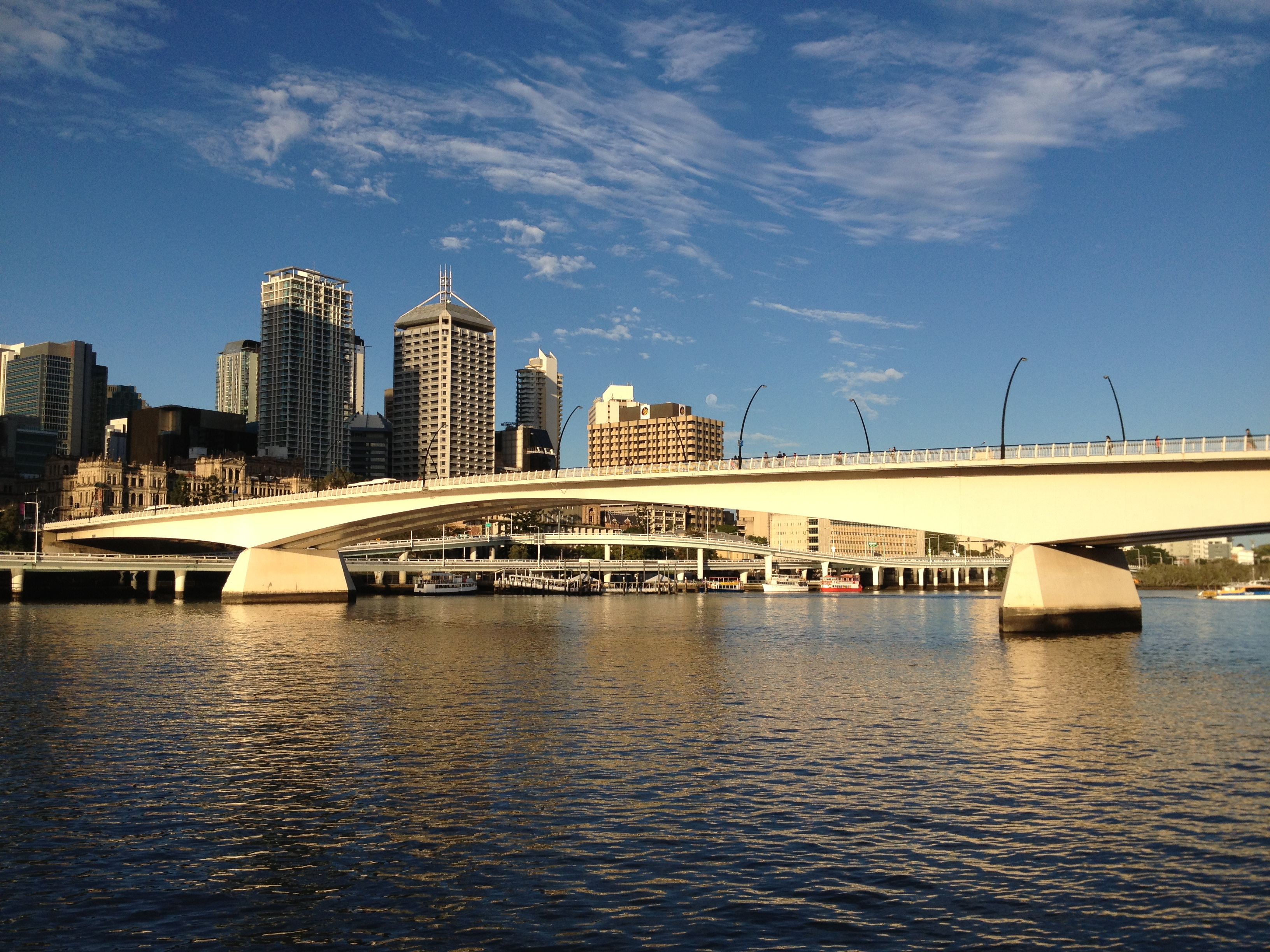 Victoria Bridge, Brisbane